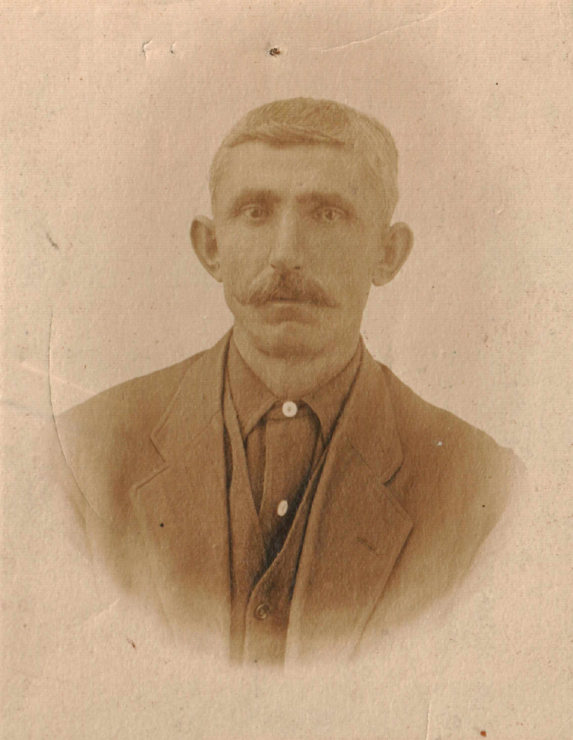 Anton Panayotov Ivanov